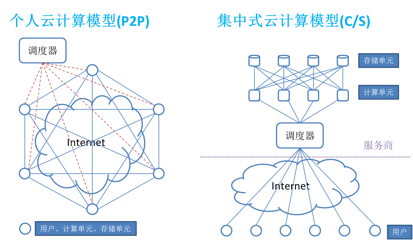 The architecture of the personal cloud and public cloud